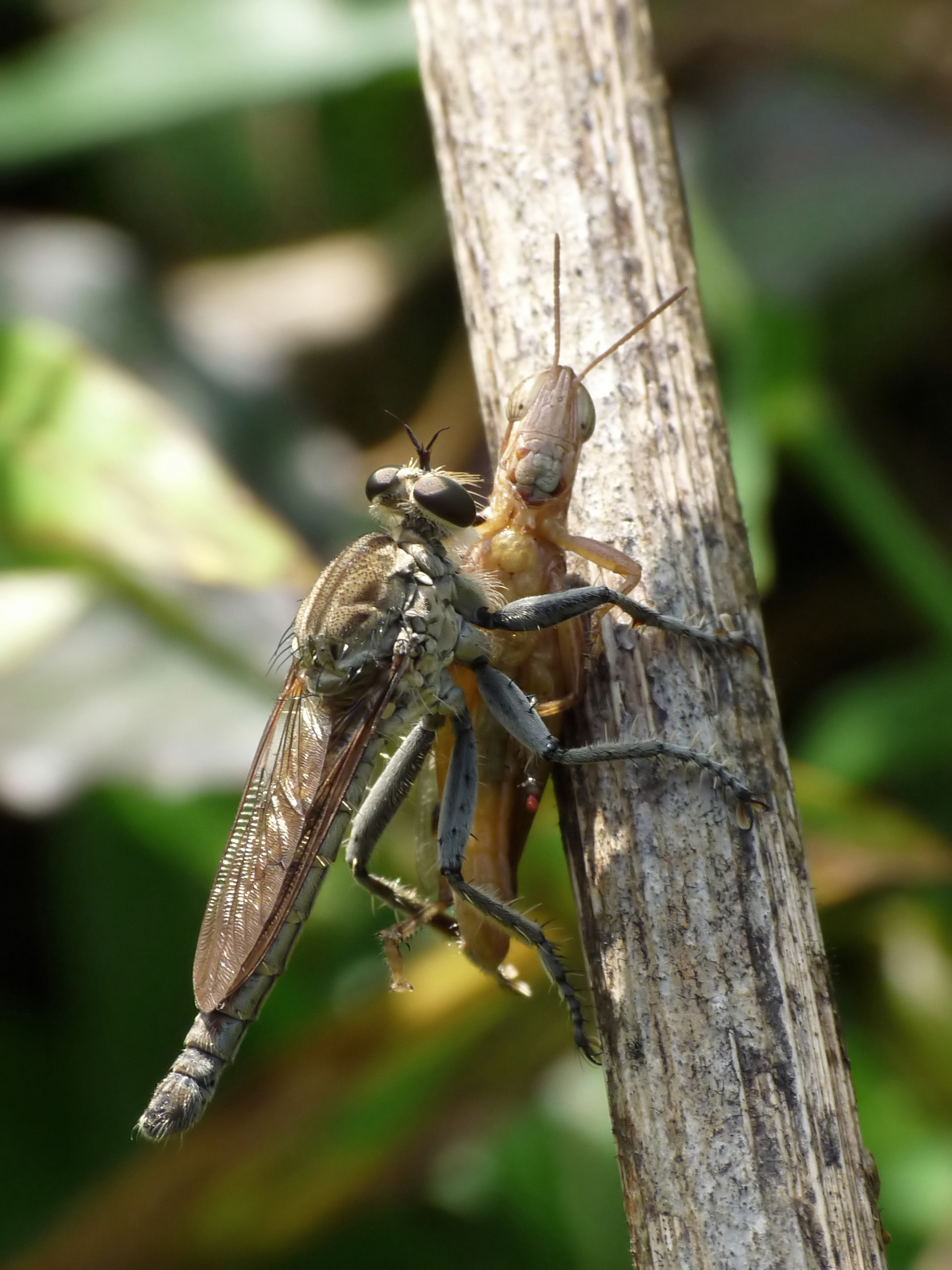 Philodicus sp. Insects in the Diptera family Asilidae are commonly called robber flies. The family Asilidae contains about 7,100 described species worldwide. Taken at Kadavoor, Kerala, India.